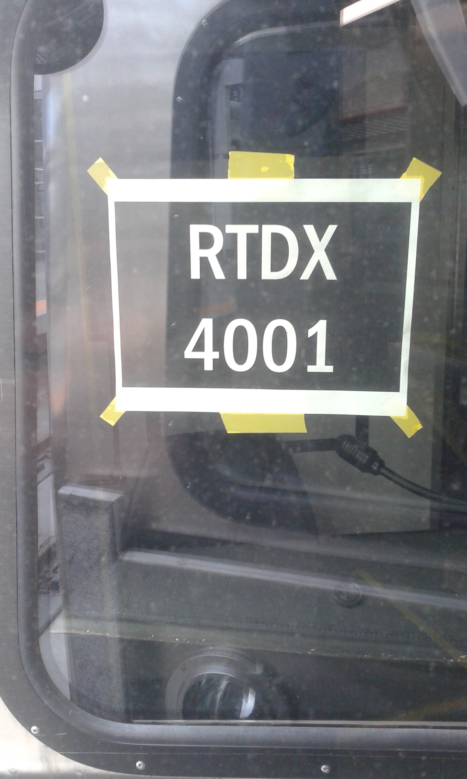 RTDX 4001 reporting mark sign seen from RTDX 4004 cab